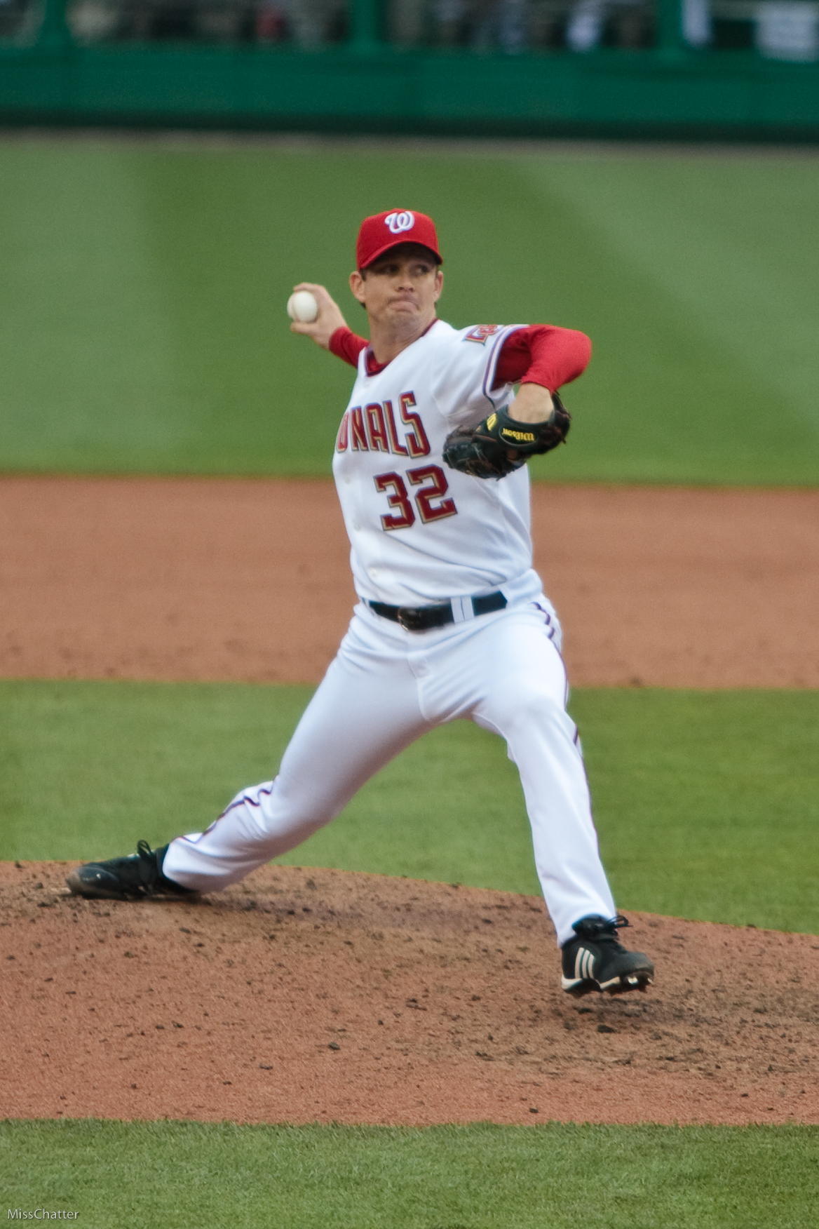 Kip Wells comes in to record the final two outs of the inning